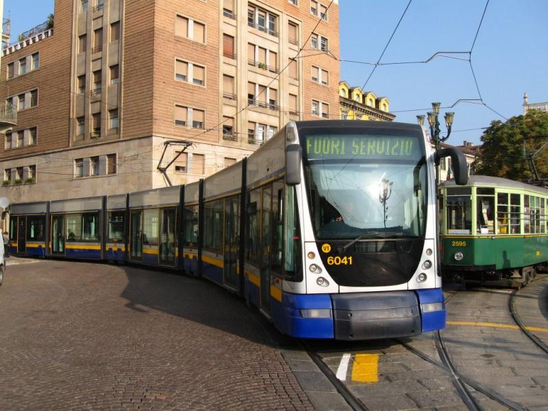 An Alstom Cityway owned by Gruppo Torinese Trasporti of Turin.